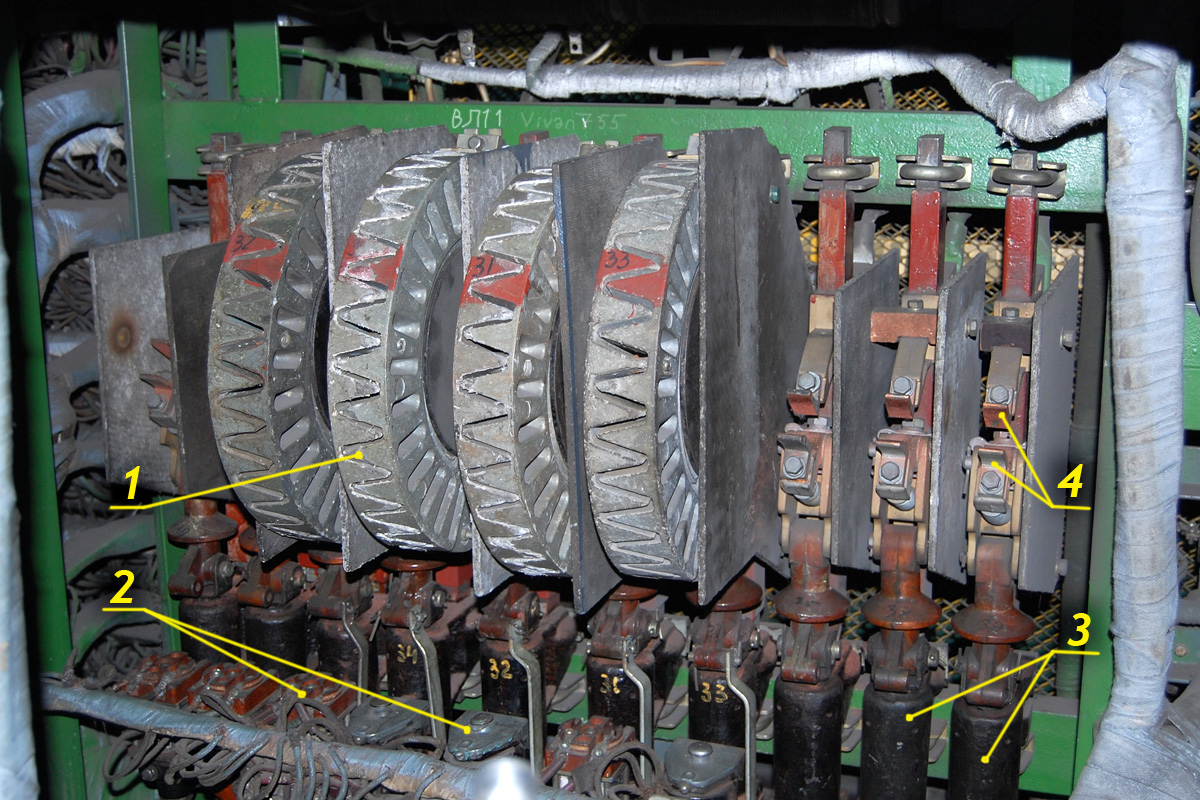 Contactors of electric locomotive VL11, Sverdlovsk region, Russia. 1 — arc chute, 2 — electric valves, 3 — drive cylinders, 4 — high-voltage contacts